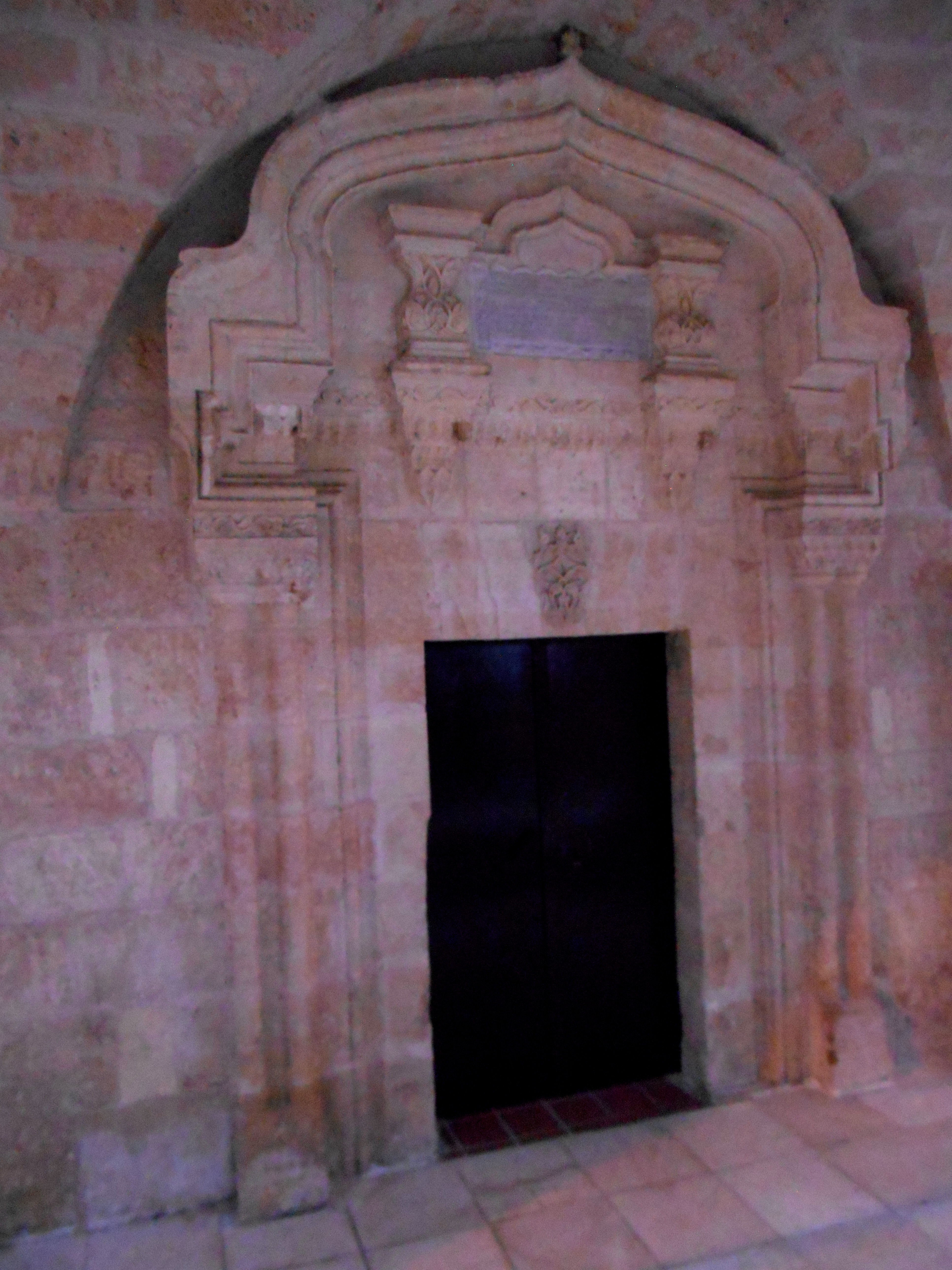 Kuruköprü Church door